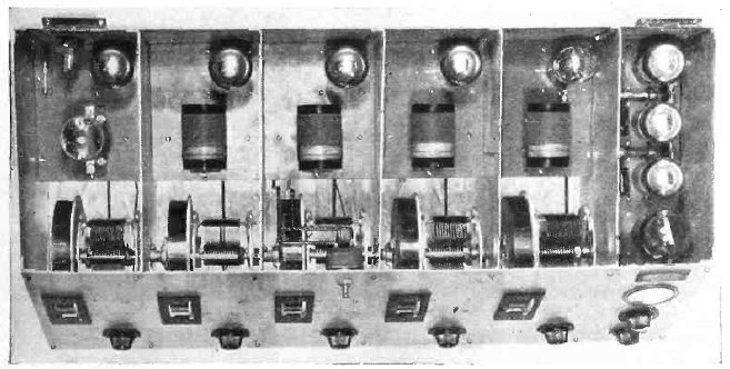 Top view of the Leutz Transoceanic "Phantom" radio receiver with its cover removed, from 1927. It was a 9 tube tuned radio frequency (TRF) receiver, with 4 tuned radio frequency stages, a grid leak detector stage, and 4 audio amplifier stages. The organization of the receiver is obvious from the layout of the parts. The 4 TRF and one detector stages are visible in the shielded compartments from right to left. Visible in each compartment is the triode vacuum tube, the air core interstage coupling transformer, and the variable capacitor which forms the tuned circuit. The 4 audio amplifier tubes are in the righthand compartment. The capacitor for each of the 5 tuned stages is adjusted by a dial on the front panel. To make tuning easier, the capacitors can also be connected together mechanically (ganged) with the horizontal shaft running through the compartments, so they can be tuned together. The meter and two rheostat knobs at the right end of the panel control the filament currents. With plugin coils the receiver can cover the range from 3600 to 35 meters wavelength (83 kHz to 8.6 MHz). Caption: "THE SHIELDED COMPARTMENTS OF THE RECEIVER - At right are the four low frequency stages in one compartment. The four high frequency stages and the detector stage, each in a separate compartment, are seen to the left of the low frequency compartment. Note also the common shaft of the rotors of the tuning condensers"